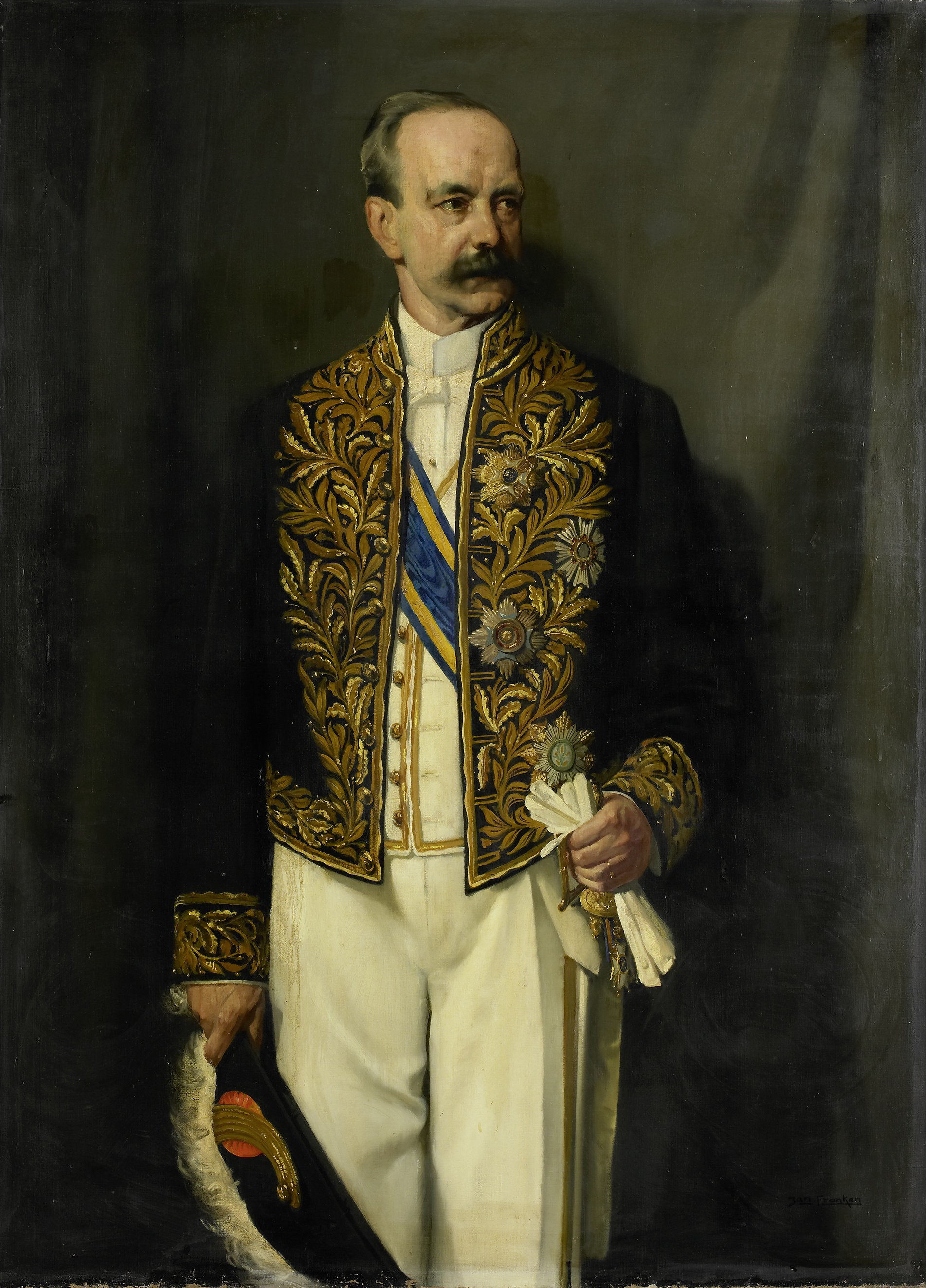 Portrait of Alexander Willem Frederik Idenburg (1861–1935). Governor-general of the Dutch East Indies (1861-1935). At knee length, standing, facing right. Holding a bicorne in his right hand and gloves in his left. Part of a series of portraits of the governors-general of the former Dutch East Indies.